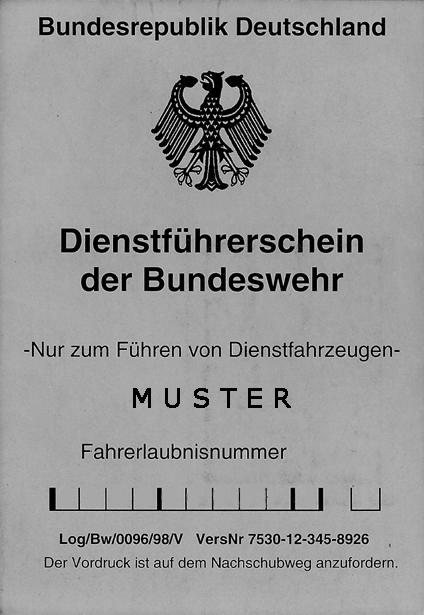 Sample: front of a military driver's license in Germany/German armed forces